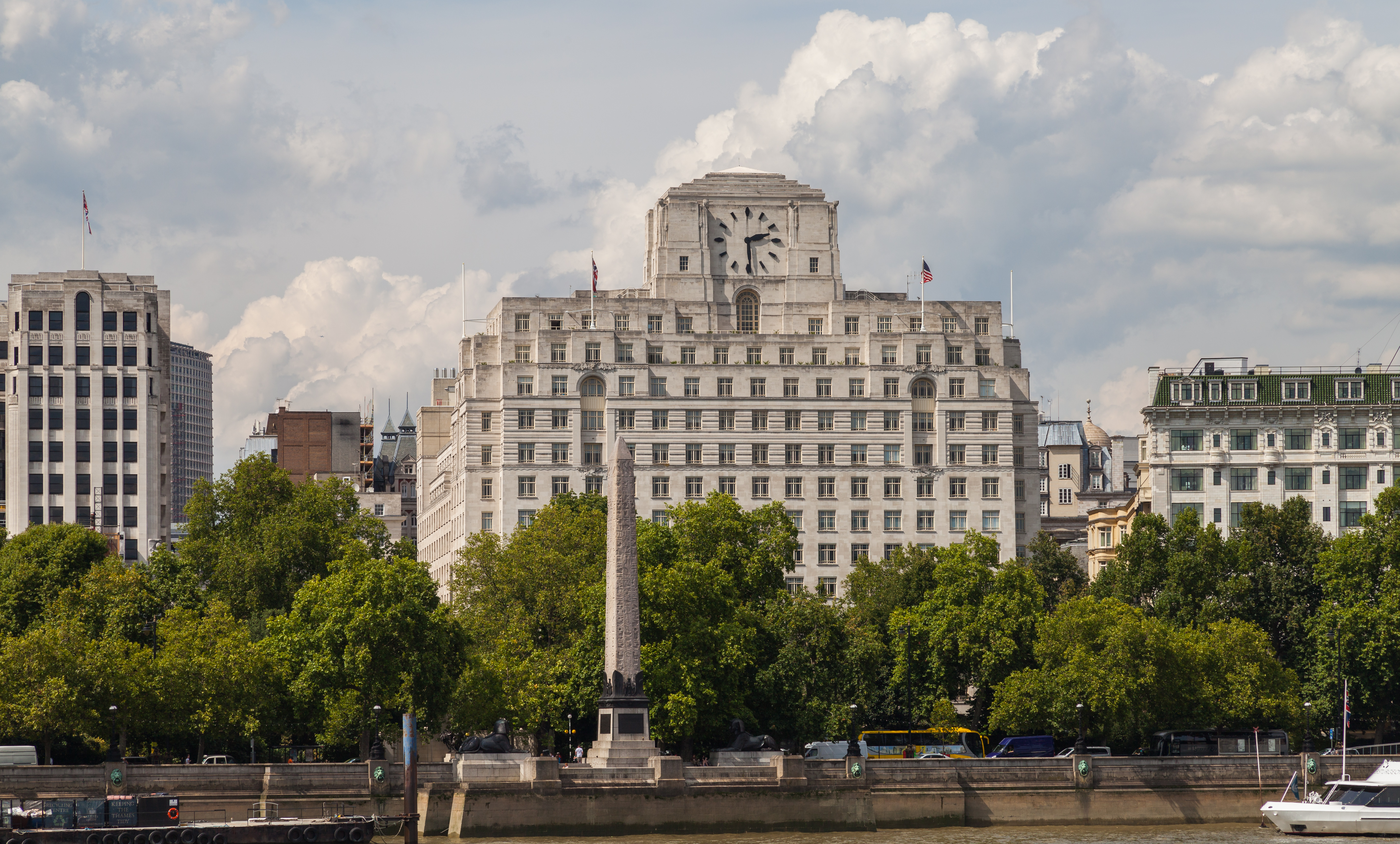 Cleopatra's Needle and Shell Mex House, London, England